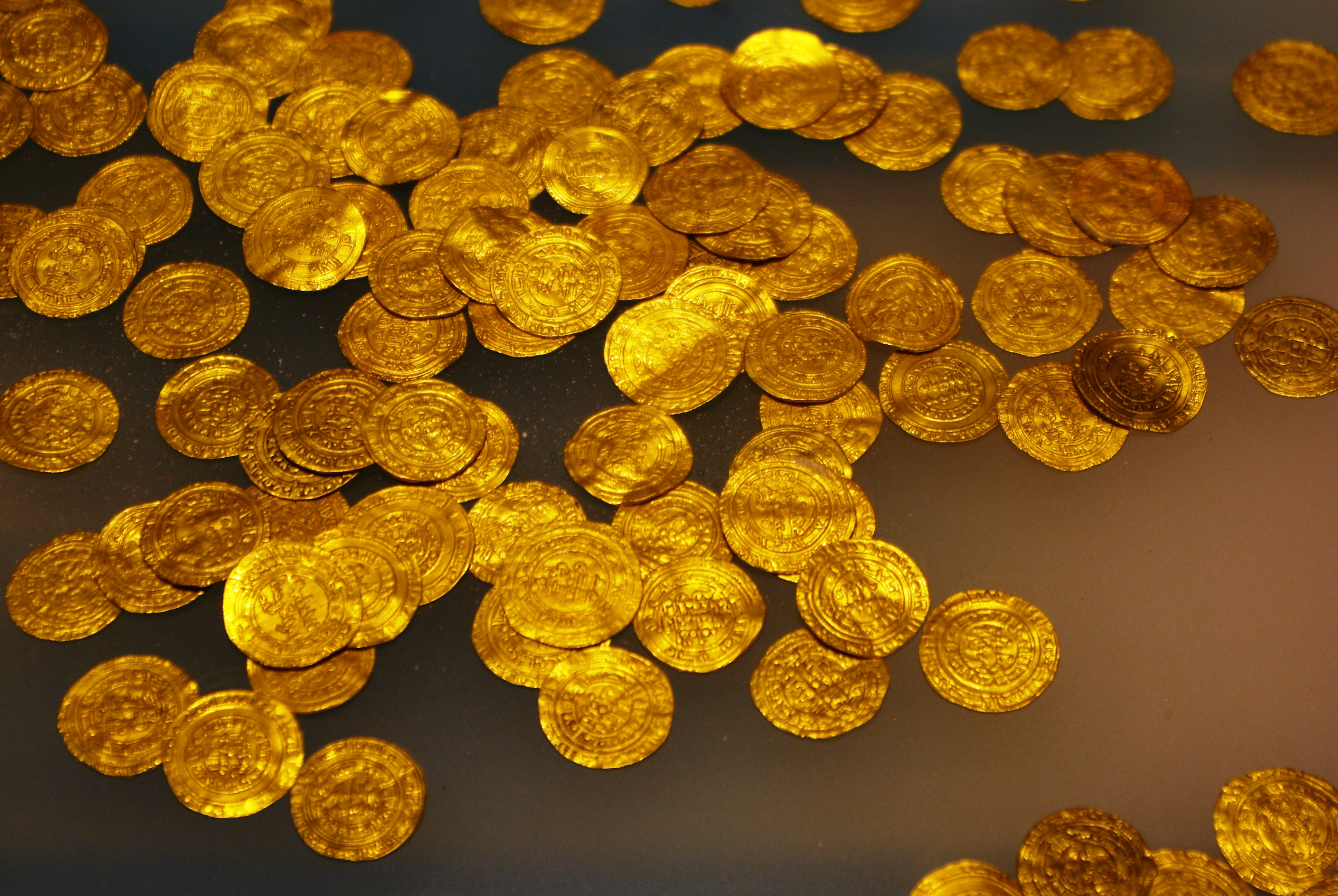 Part of the largest gold treasure in Israel. Exposed seabed of the ancient port of Caesarea National Park in February 2015. From the Fatimid (11 century) period[1]